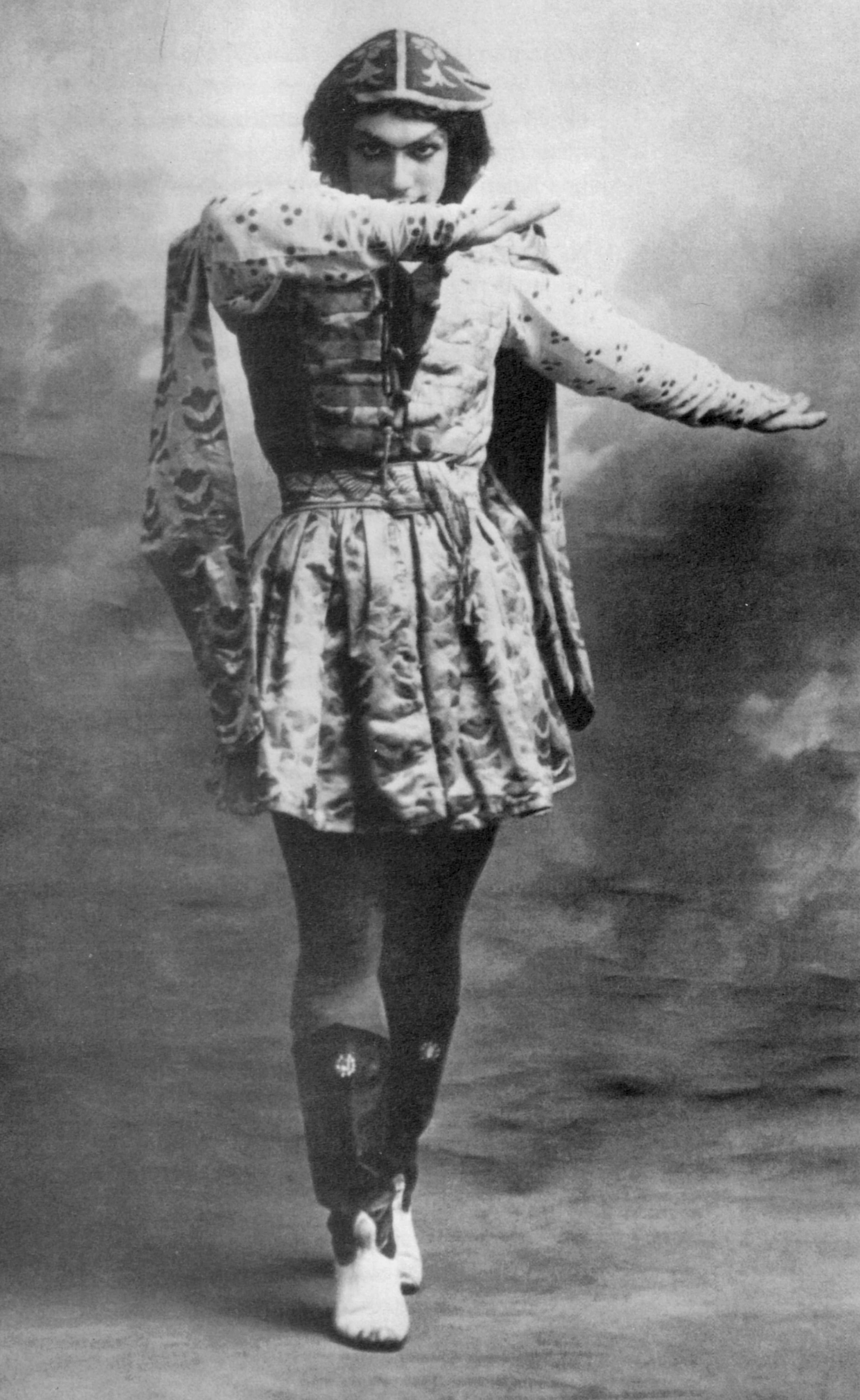 Vaslav Nijinsky wearing high boots and a long tunic, peering above his right arm, left arm extended to the side in the Grand pas classique hongrois from Le festin.